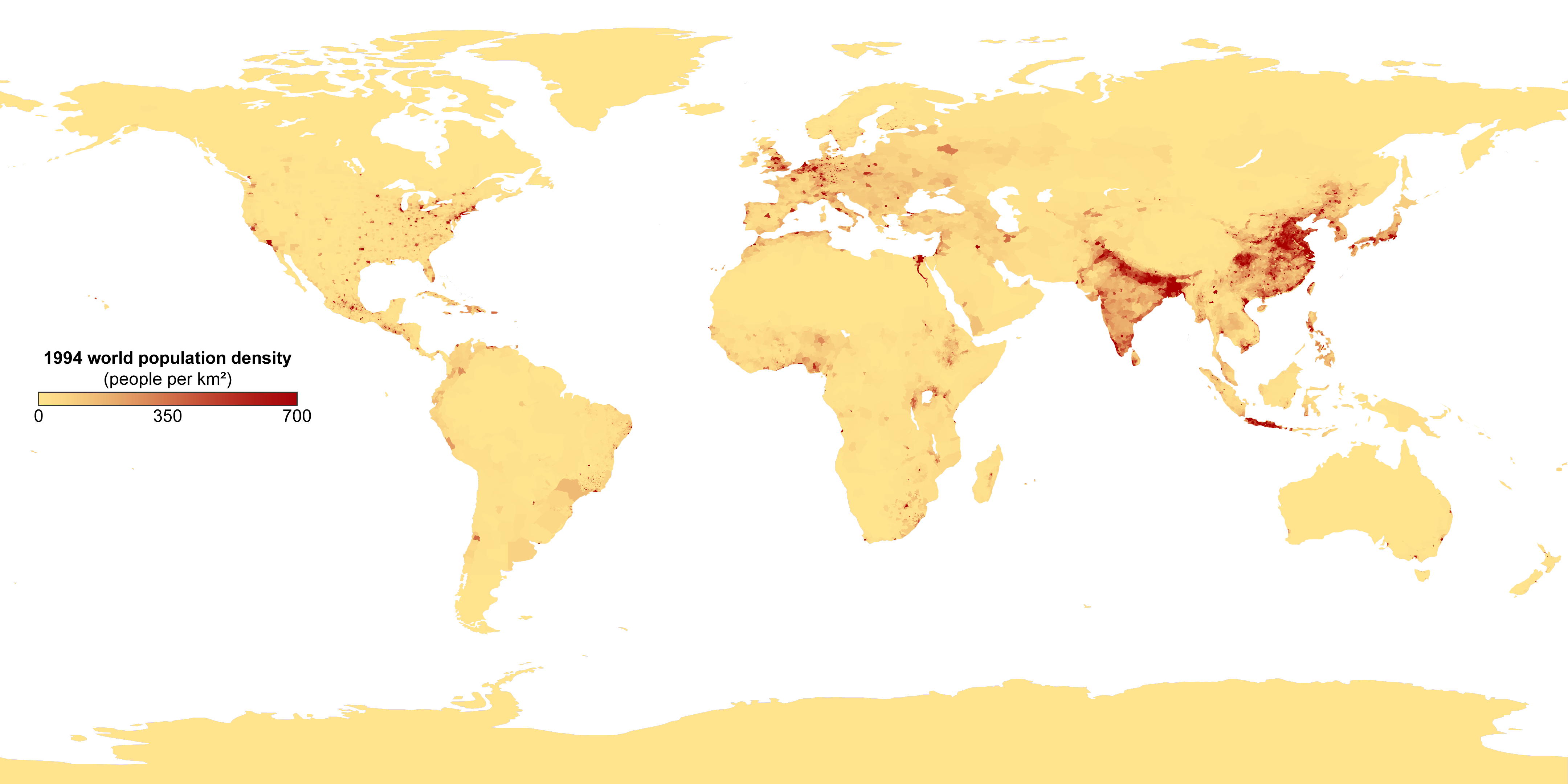 This image shows the number of people per square kilometer around the world in 1994. The data were derived from population records based on political divisions such as states, provinces, and counties. Converted from TIFF to PNG with tifftopnm and pnmtopng, preserving alpha channel.